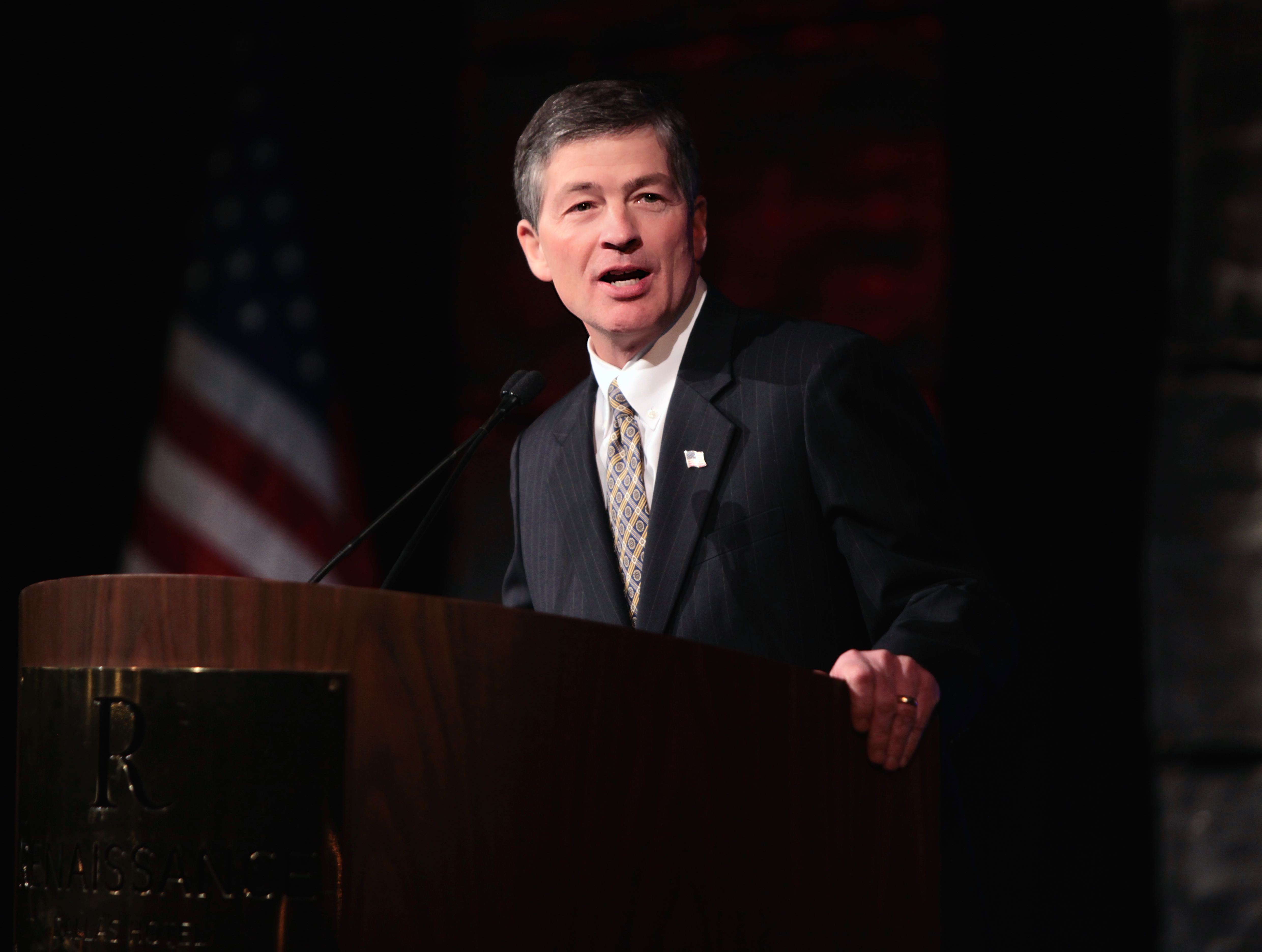 Dallas, Texas